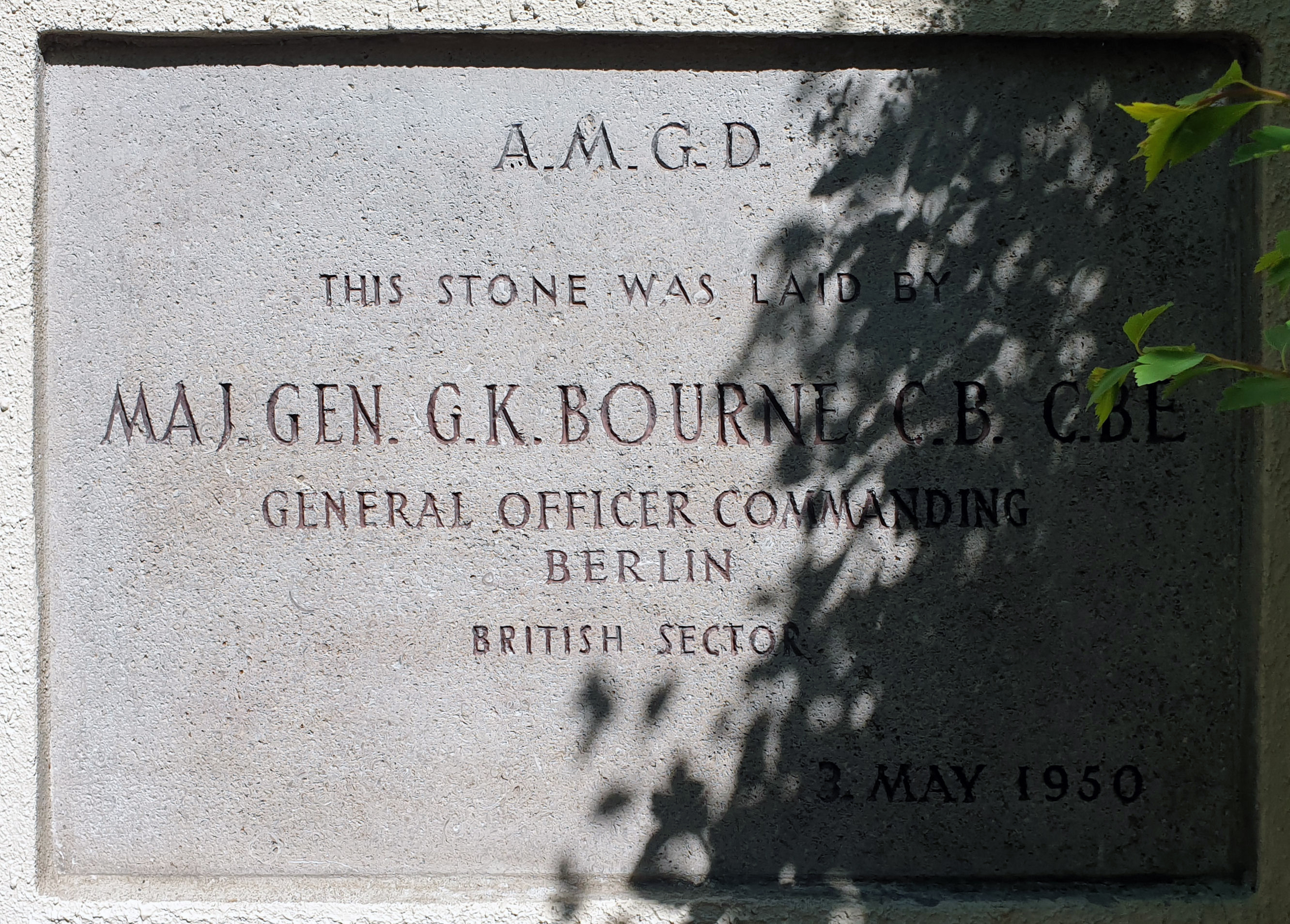 Memorial plaque, G. K. Bourne, Preußenallee 17, Berlin-Westend, Deutschland